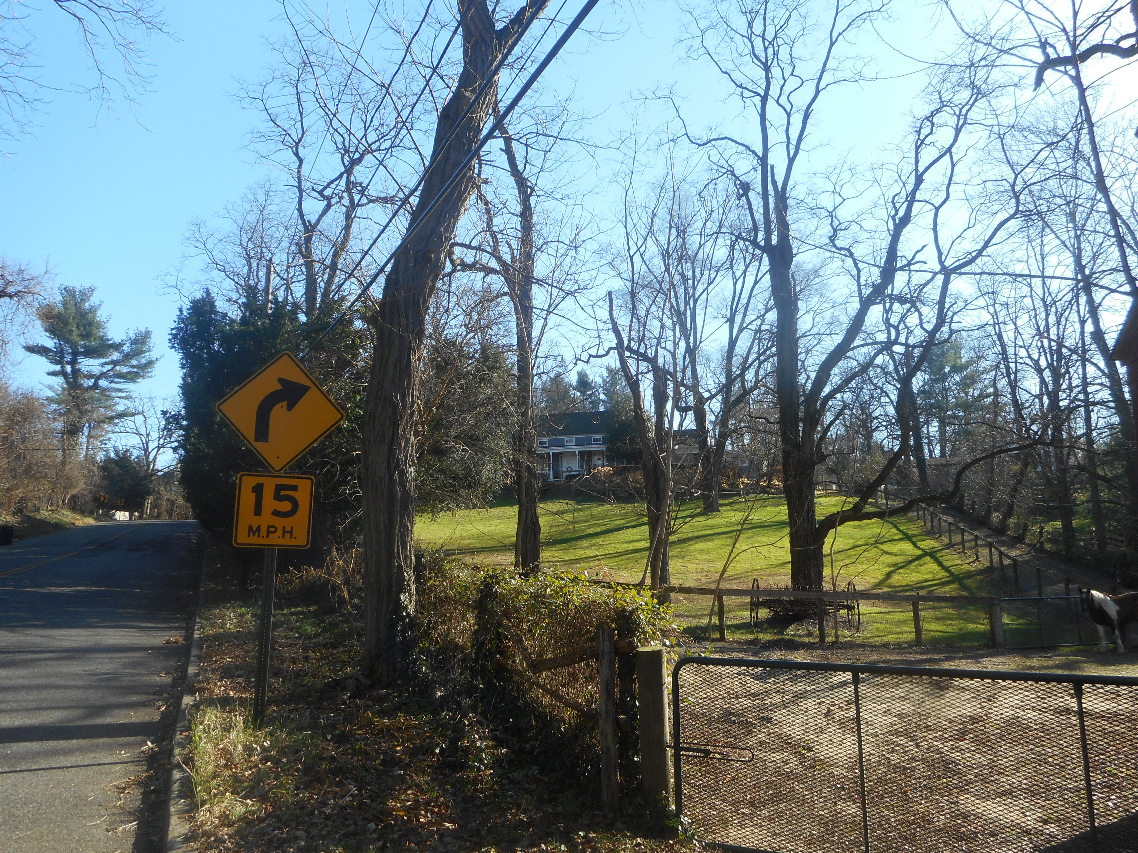 Roadside view up the hill at the NRHP-listed Michael Remp House at 42 Godfrey Road in Greenlawn, New York. A small horse farm can also be found next door closer to this view.